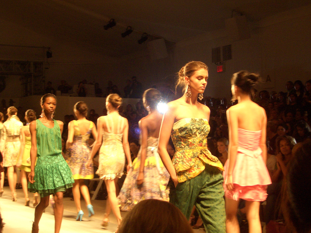 Tracy Reese designer show 2008